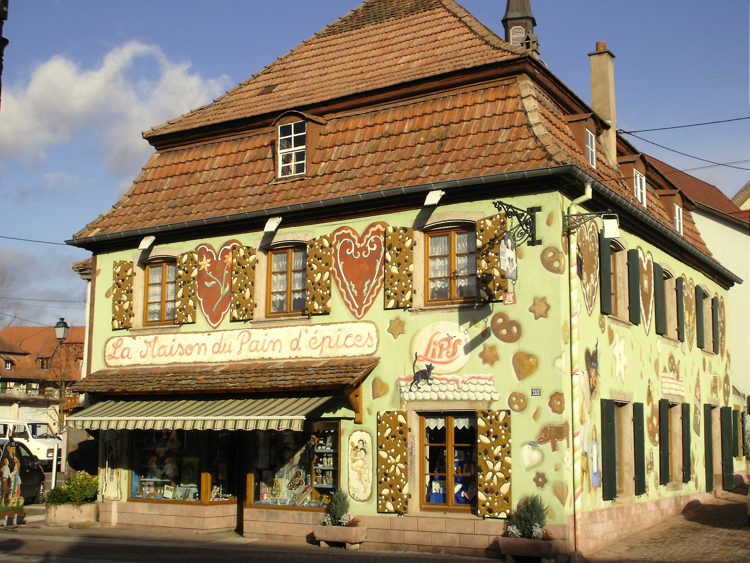 fabric and museum of gingerbread house Lips